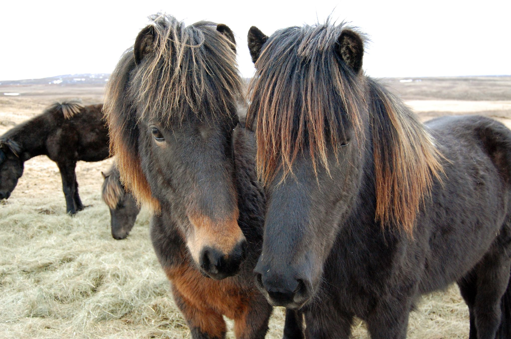 Icelandic horses